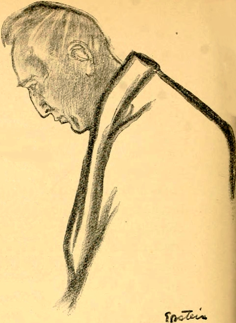 From :The spirit of the Ghetto; studies of the Jewish quarter in New York